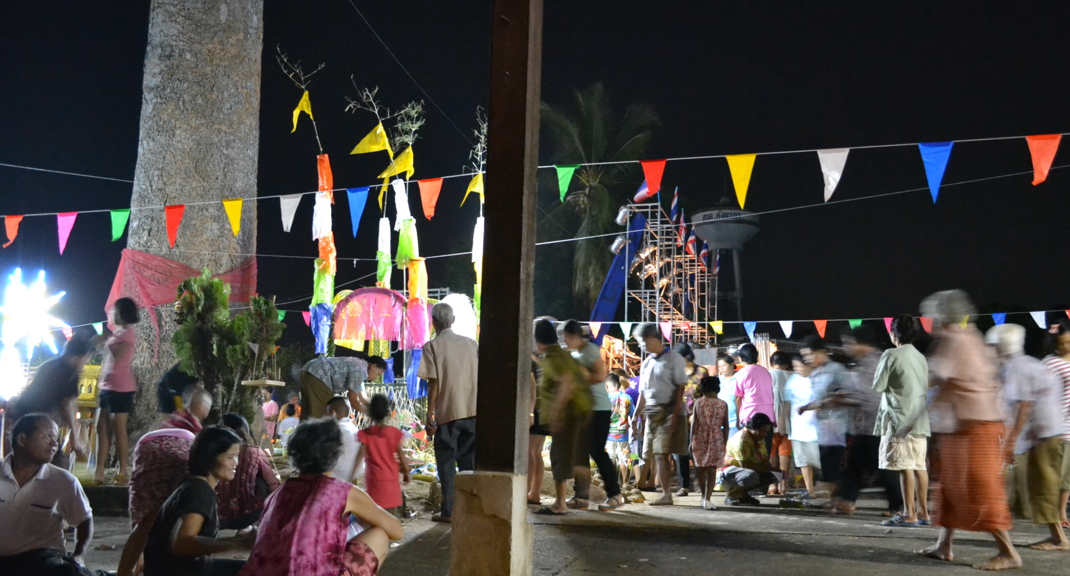 Ngan Bun Klang Ban (งานบุญกลางบ้าน) are Religious festivals of Thailand that have been passed on for a long period of time of the Ban Khung Taphao people. They are organized on Sunday in the first week of February or the Thai 2th lunar month. in Ban Khung TaphaoLocation: Ban Khung Taphao, Khung Taphao subdistrict, Mueang Uttaradit, Uttaradit Province, Thailand.